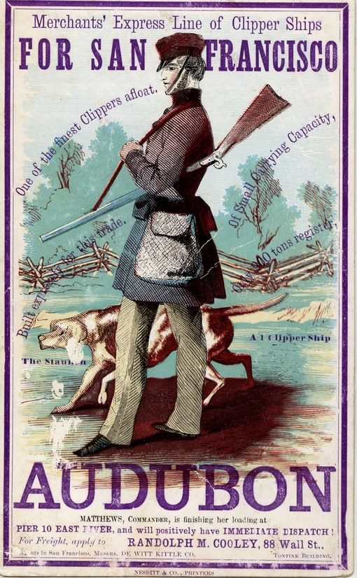 Sailing card for the clipper ship Audubon.